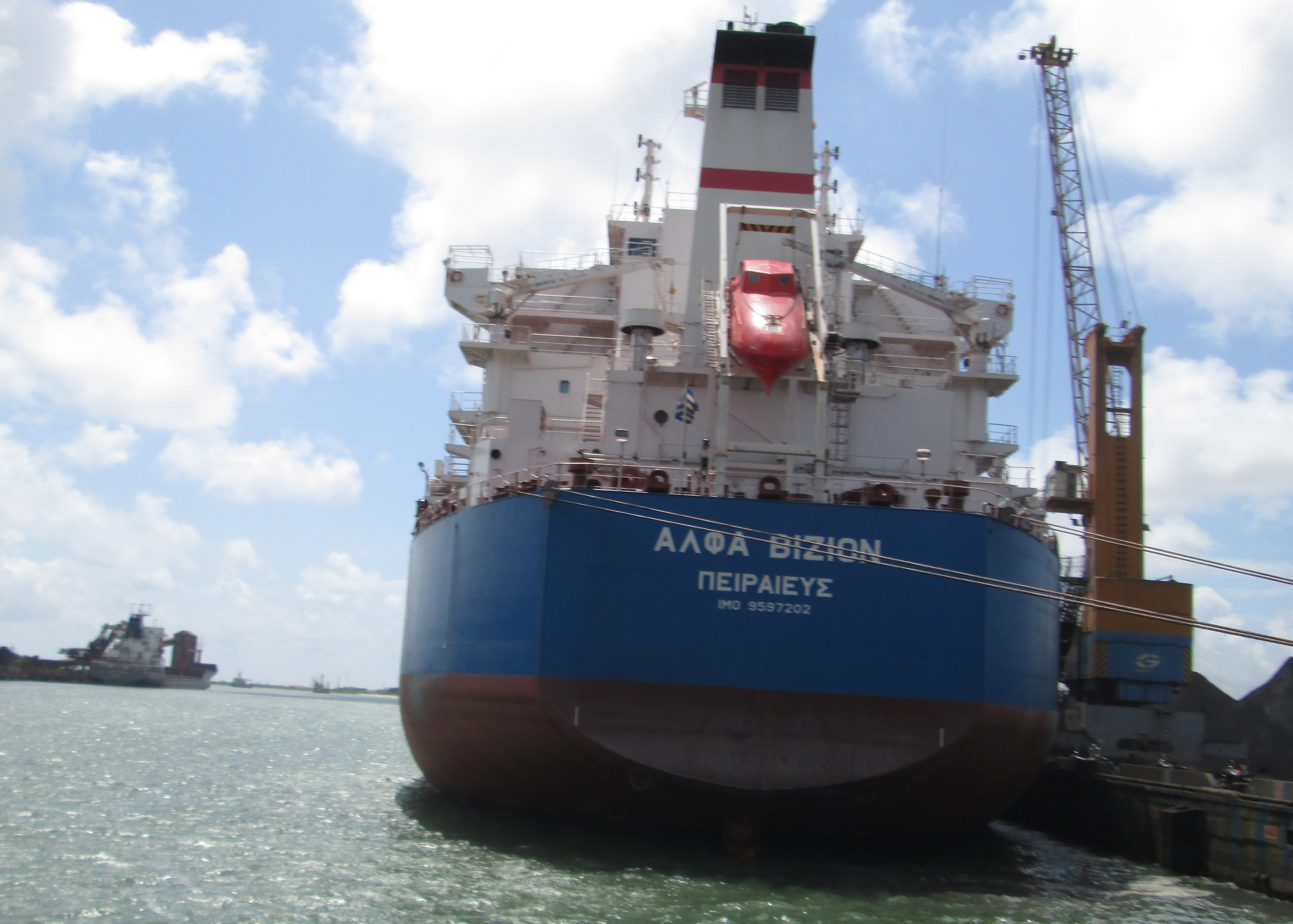 Ship at Paradeep Port